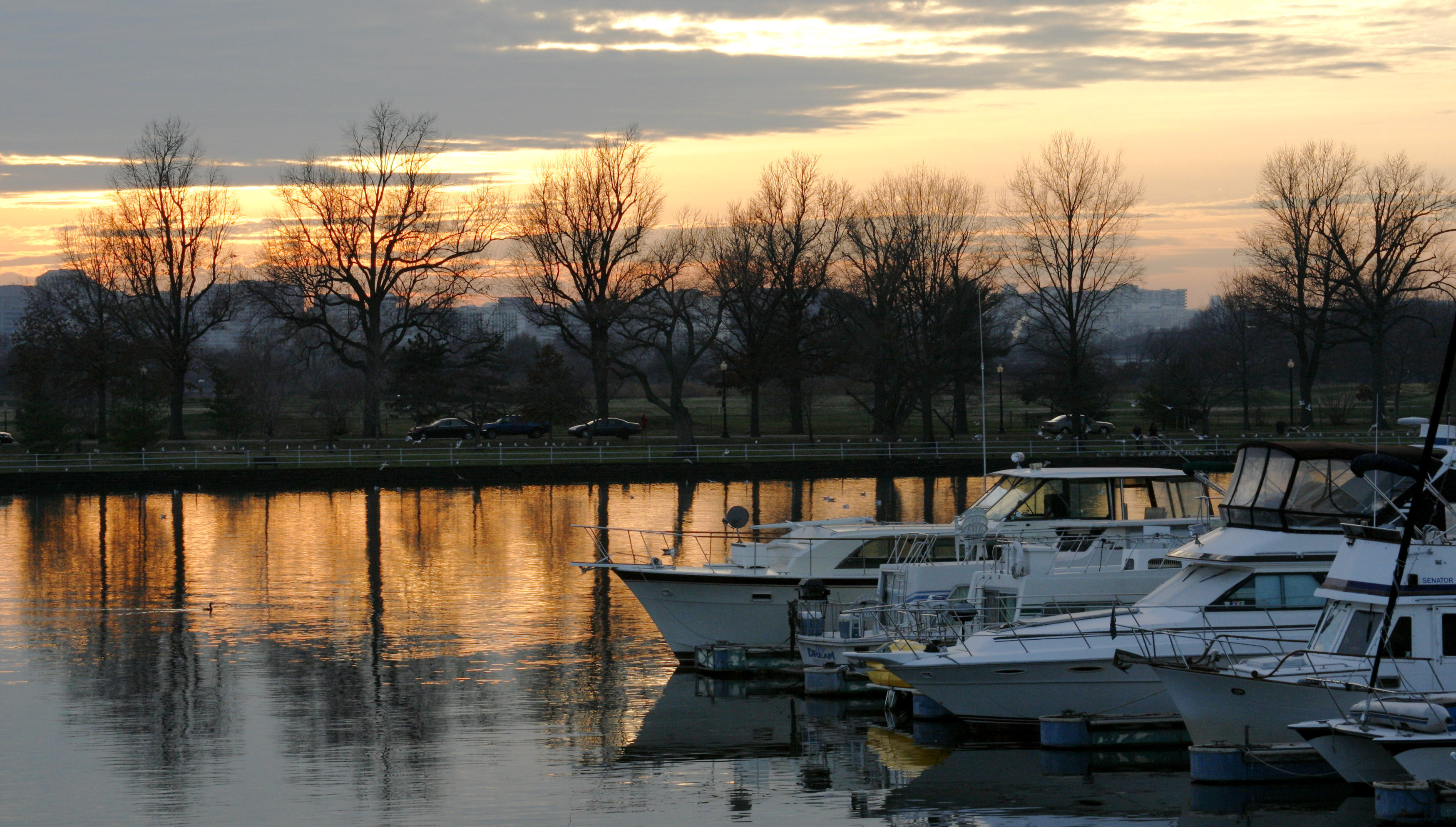 Boats docked at the Southwest Waterfront in Washington, D.C.